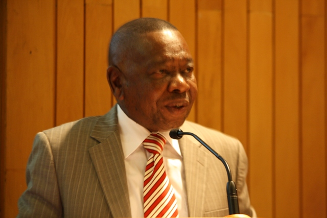 Blade Nzimande - Unisa Roundtable